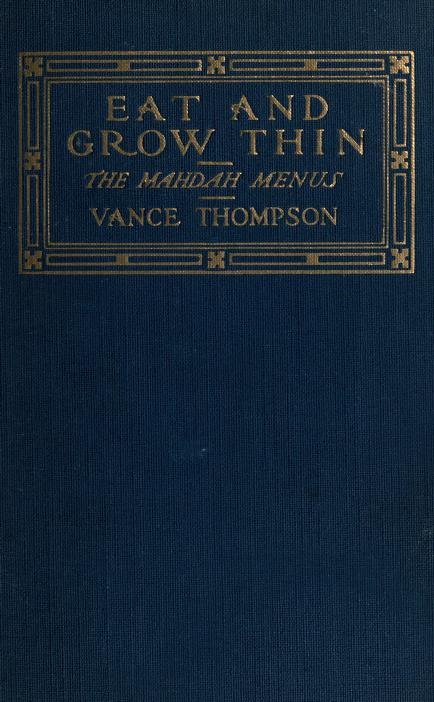 Front cover of Eat and Grow Thin, published in 1914.